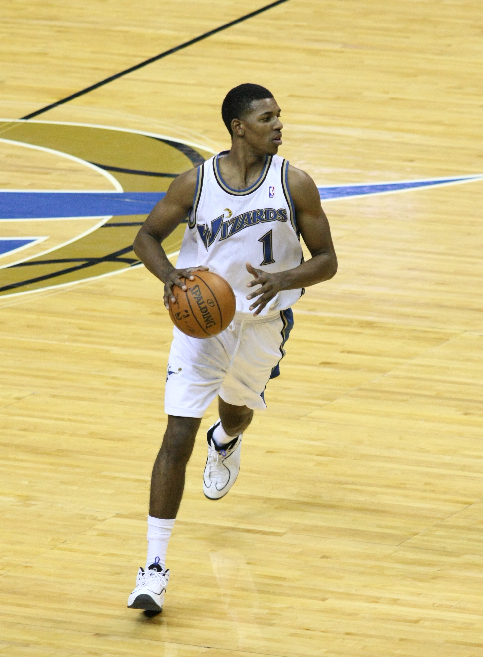 Nick Young